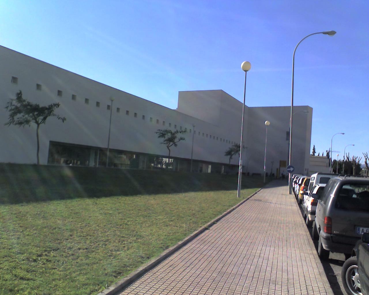 Building 3-Faculty of Pharmacy, Campus of Sant Joan d'Alacant of University Miguel Hernández of Elche